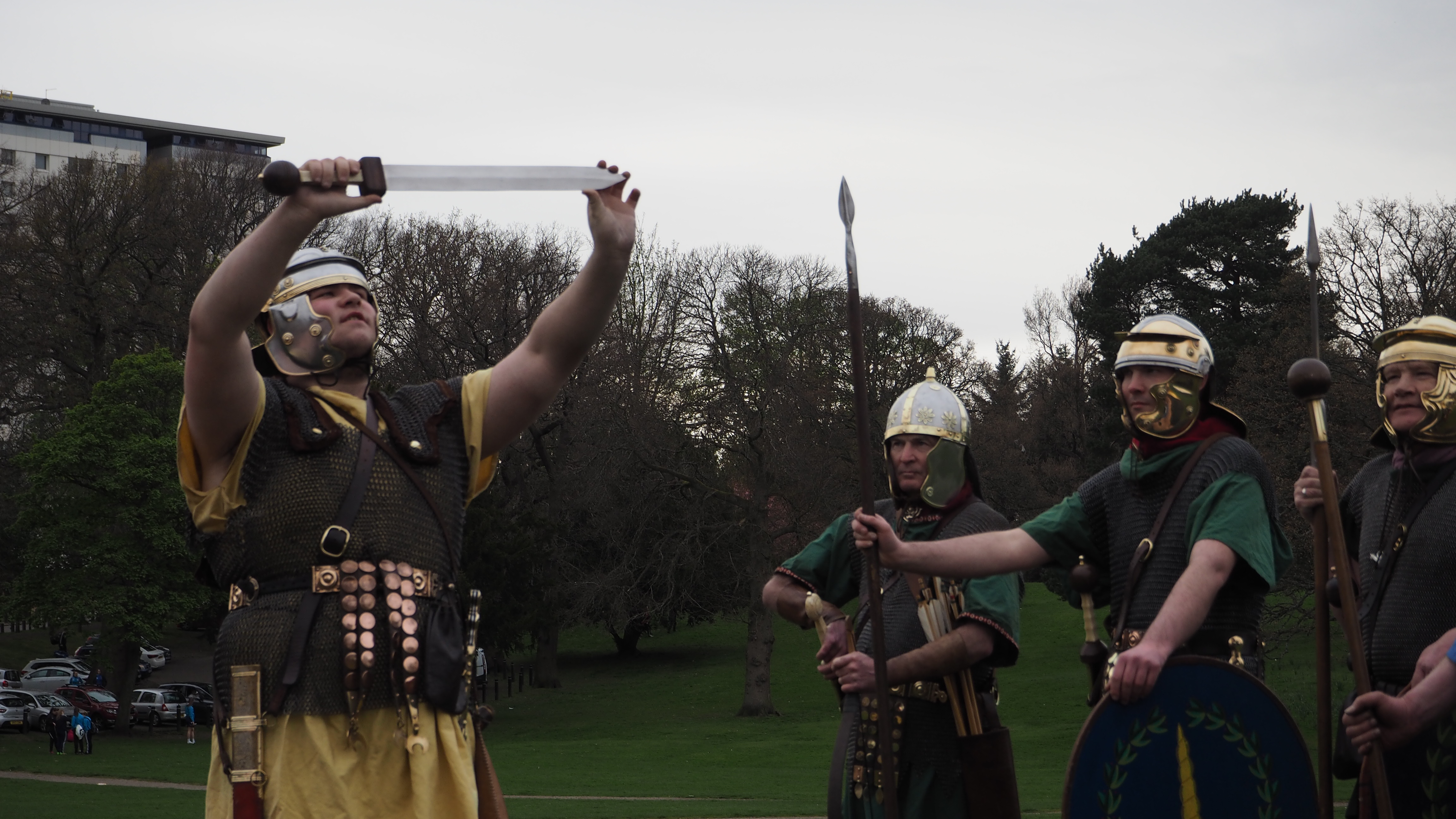 Images from Picts Vs Romans 5k and Roman Bake-off, Callendar House, Falkirk for 'Scotland in Six' World Heritage Day event, 18 April 2017, hosted by Dig It! 2017 and EventScotland. This file was uploaded by Dig It!, a year long celebration of archaeology coordinated by Archaeology Scotland and the Society of Antiquaries of Scotland. This tag does not indicate the copyright status of the attached work. A normal copyright tag is still required. See Commons:Licensing.